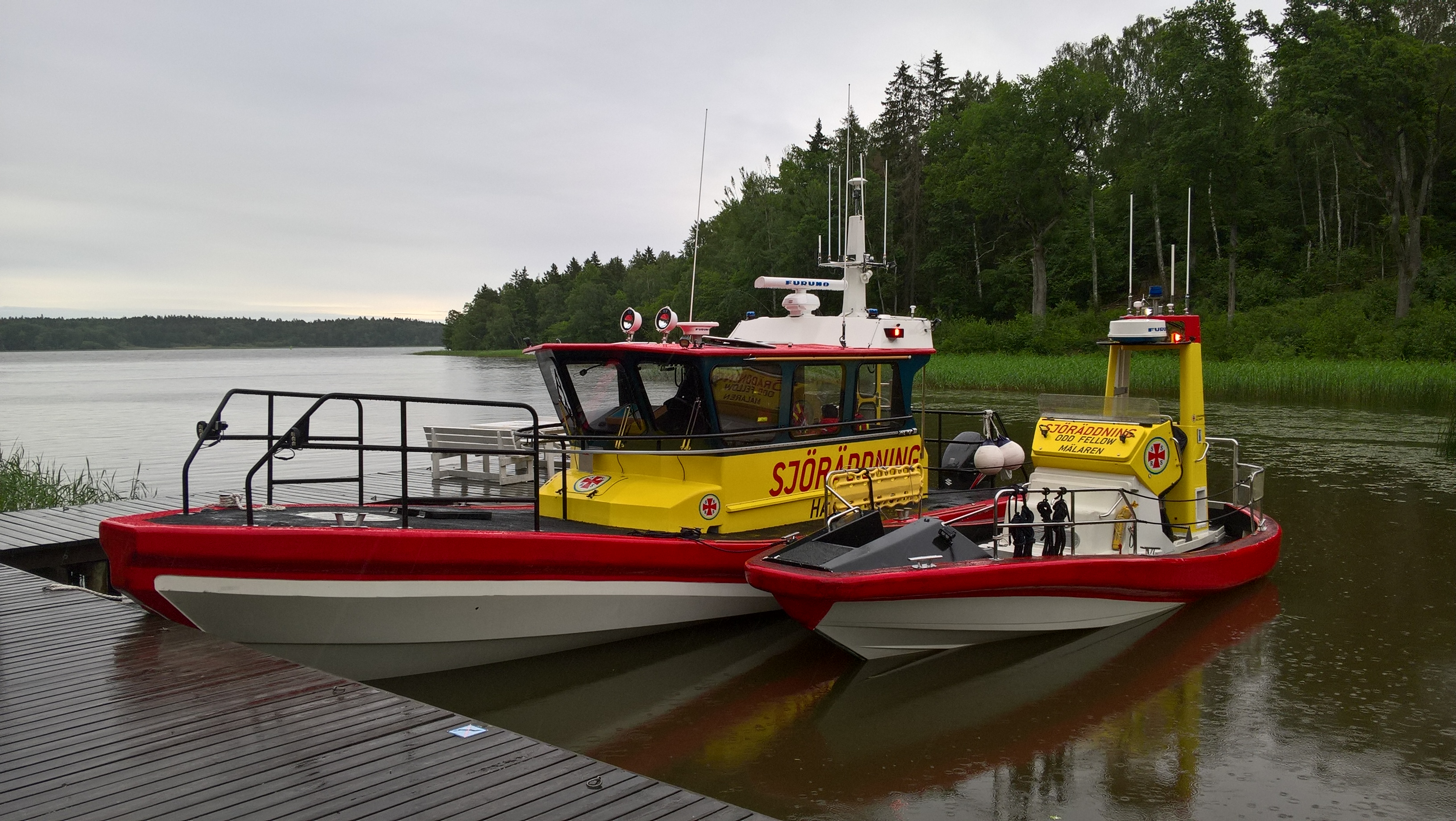 Rescueboats